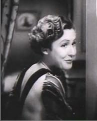 Cropped screenshot of Mae Clarke from the trailer for the film Lady Killer